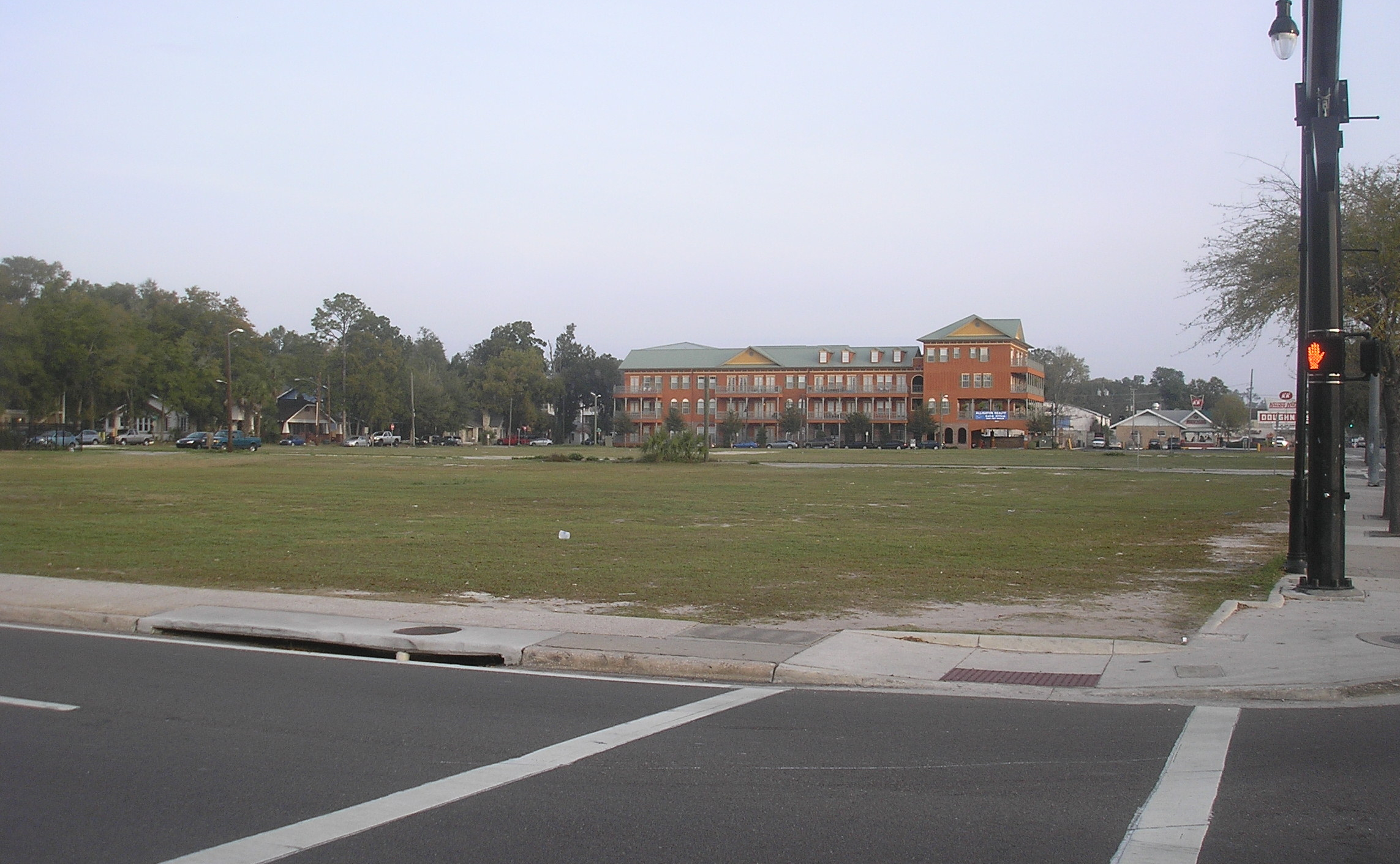 View looking north from the main entrance of the University of Florida, a now empty lot that once had thriving, landmark businesses that were torn down to make way for denser development with millions of dollars of tax incentives by the Gainesville City Commission but, alas, the developer wanted even more tax incentives, so these several blocks have remained vacant for some years.